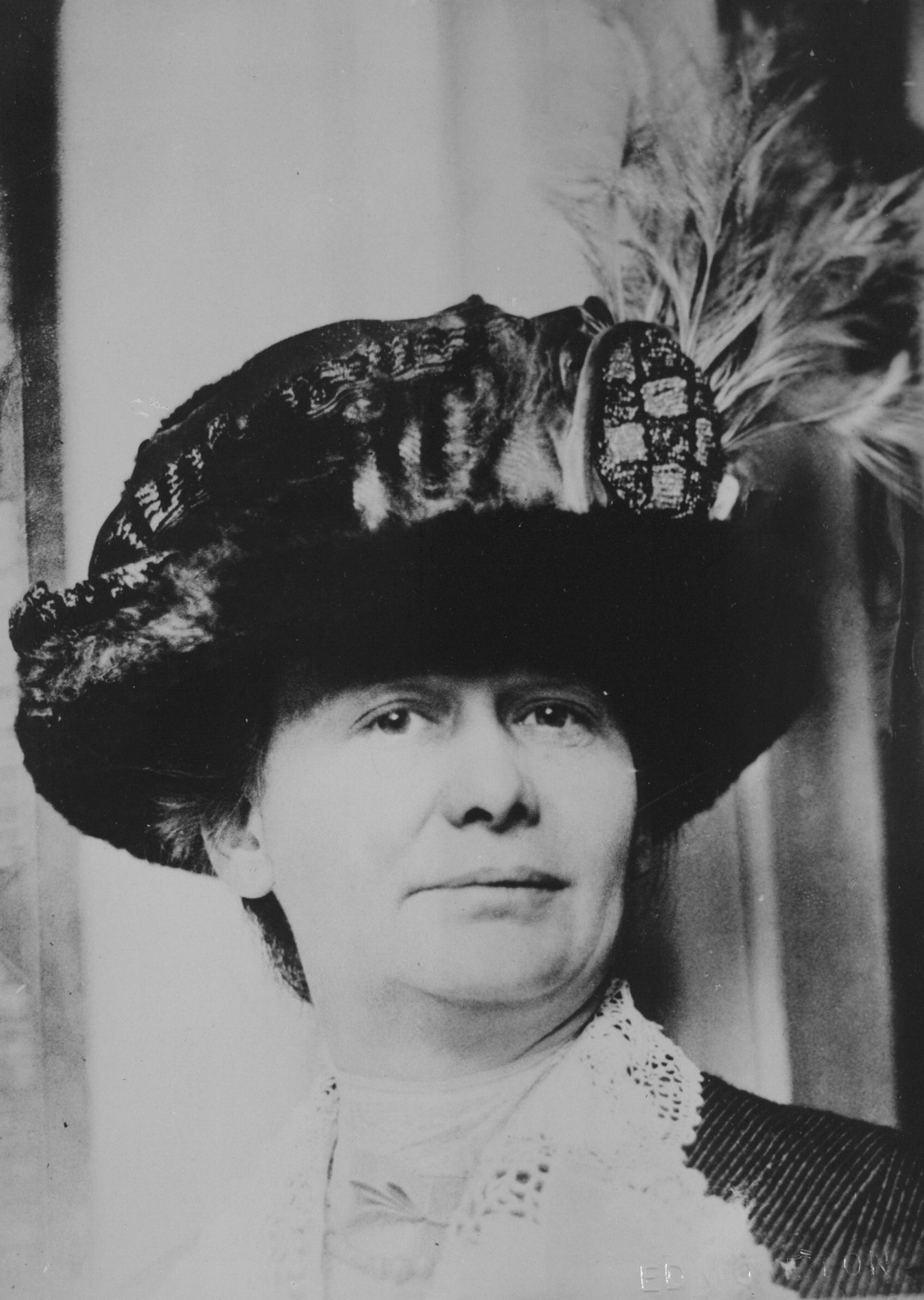 Miss Charlotte Anita Whitney is one of the prominent members of the Advisory Council of the Congressional Union for Woman Suffrage. Miss Whitney was president of the College Suffrage League of California during the campaign which resulted in the winning of suffrage in that state. Miss Whitney was formerly the first vice-president of the National American Woman Suffrage Association. She is now one of the prominent officers of the Civic Association of California. Miss Whitney is a Californian.